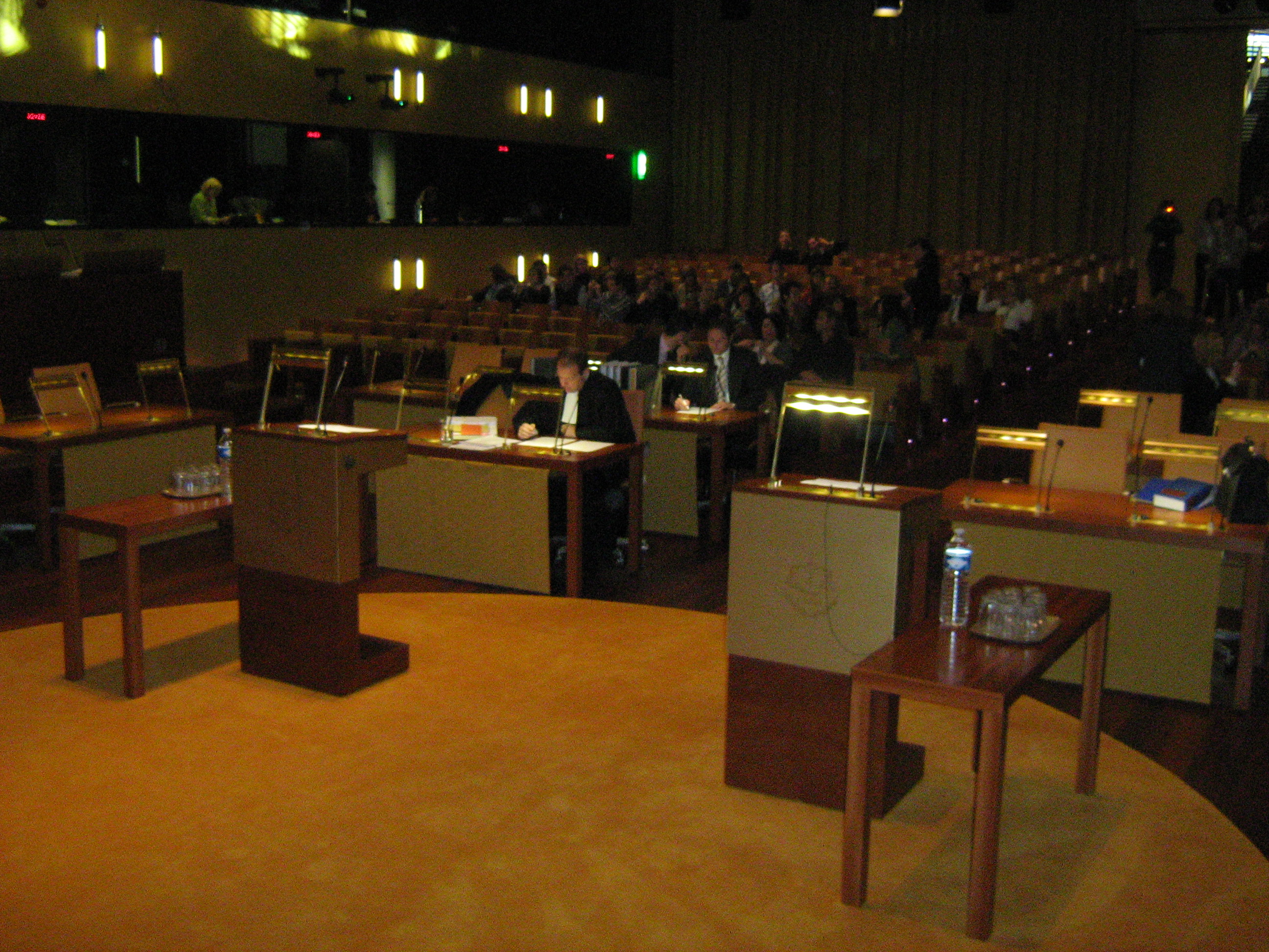 Grand Chamber of the Ancien Palais building of the Court of Justice of the European Union in Kirchberg, Luxembourg City, Luxembourg, October 2010.